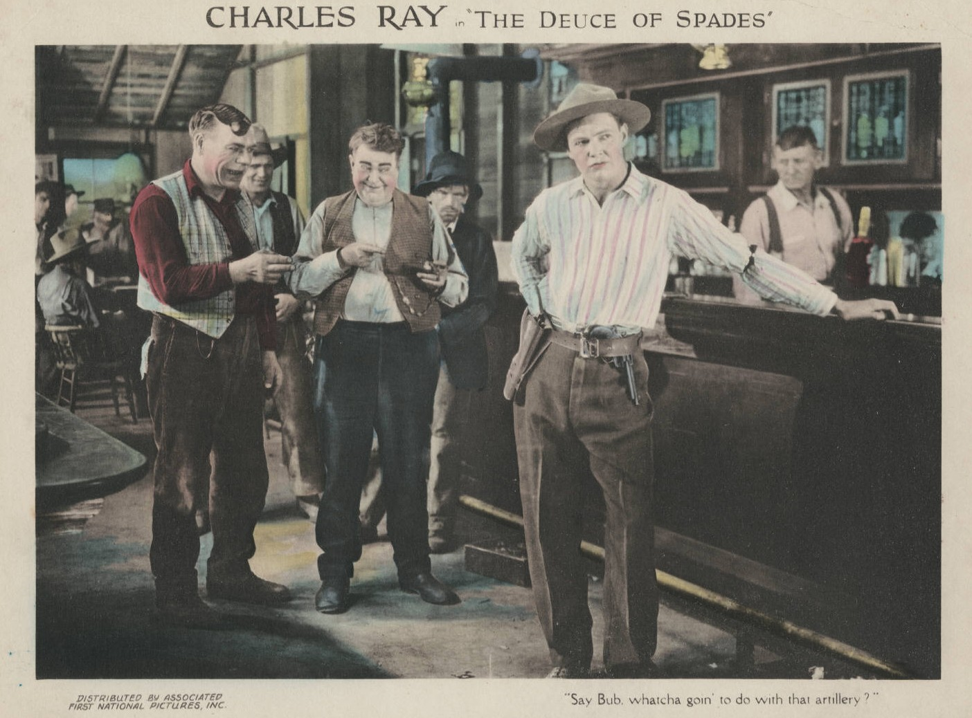 Lobby card for the Western silent film The Deuce of Spades (1922) starring Andrew Arbuckle (center) and Charles Ray (right). Caption reads, "Say Bub, whatcha goin' to do with that artillery?"